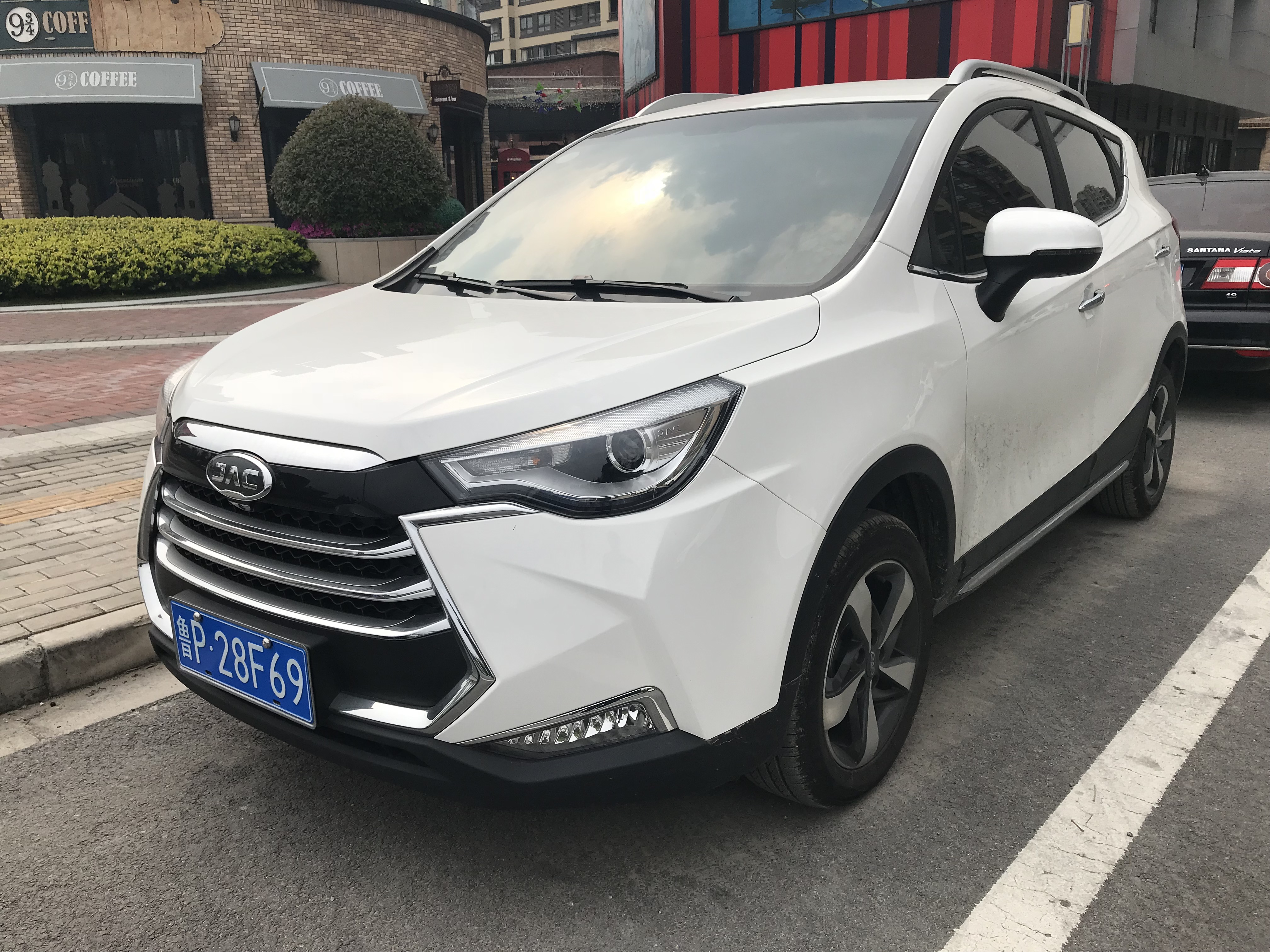 JAC S3 facelift